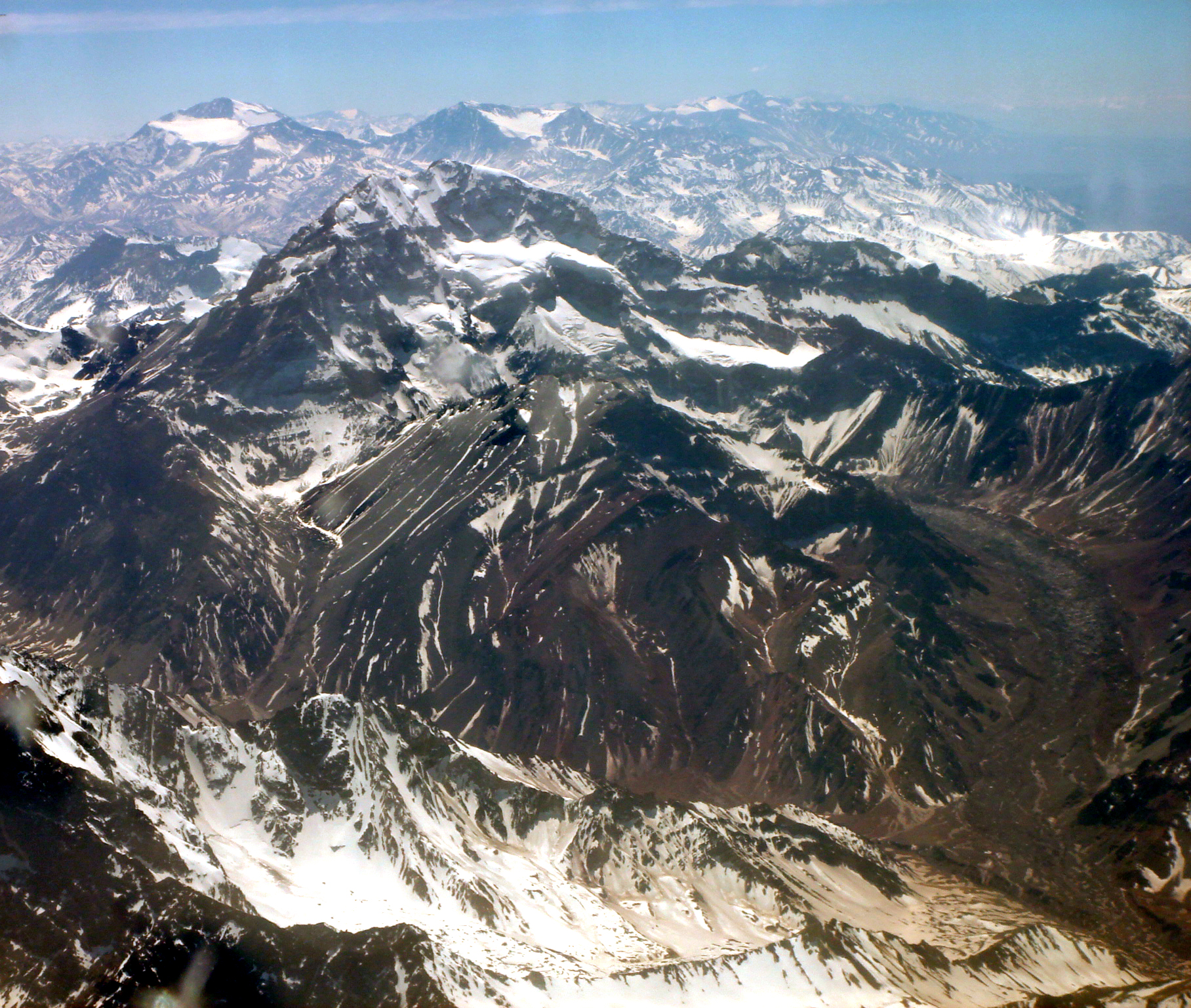 Aerial view of Aconcagua from Santiago's airport airway from ARG